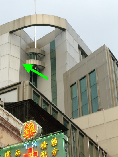 The position of Weng Hang Fire. Reference: According to the news from TDM Afternoon News in 4th October, 1992.